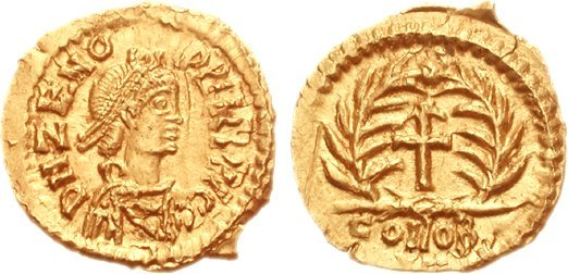 Odovacar. King, AD 476-493. AV Tremissis (1.44 g, 6h). In the name of Zeno. Mediolanum (Milan) mint. Struck AD 476-491. D N ZENO PERP AVC, pearl-diademed, draped, and cuirassed bust right Cross within wreath; COIIOB. RIC X 3610 var. (Zeno; mintmark); Lacam 66; Depeyrot 43/8 var. (same); MEC 1, 60; DOCLR 681 var. (Zeno; same). Good VF, light double strike, scratch near edge on reverse.